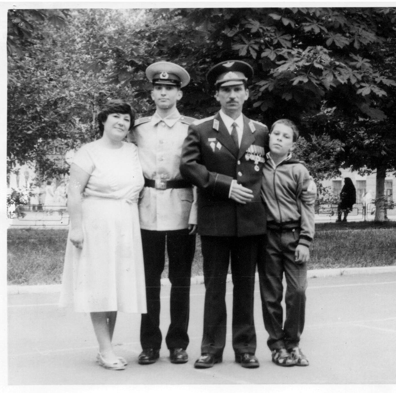 Col. Leonid Khabarov and his wife, with two kids, Vitaly (dressed in cadet′s uniform) and Dmitry (late 1980s).